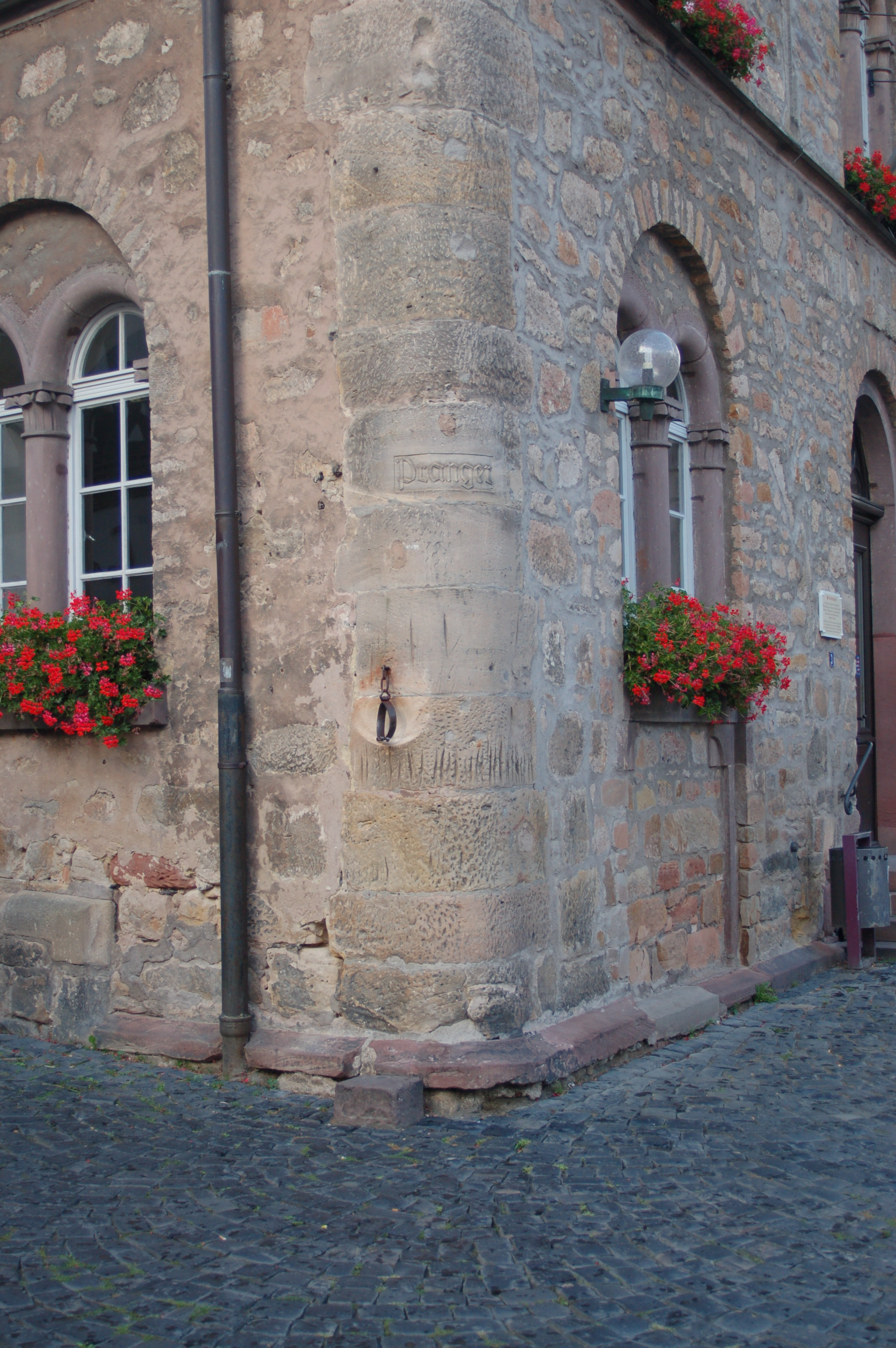 Pillory at "Weinhaus" in Alsfeld, Hesse, Germany